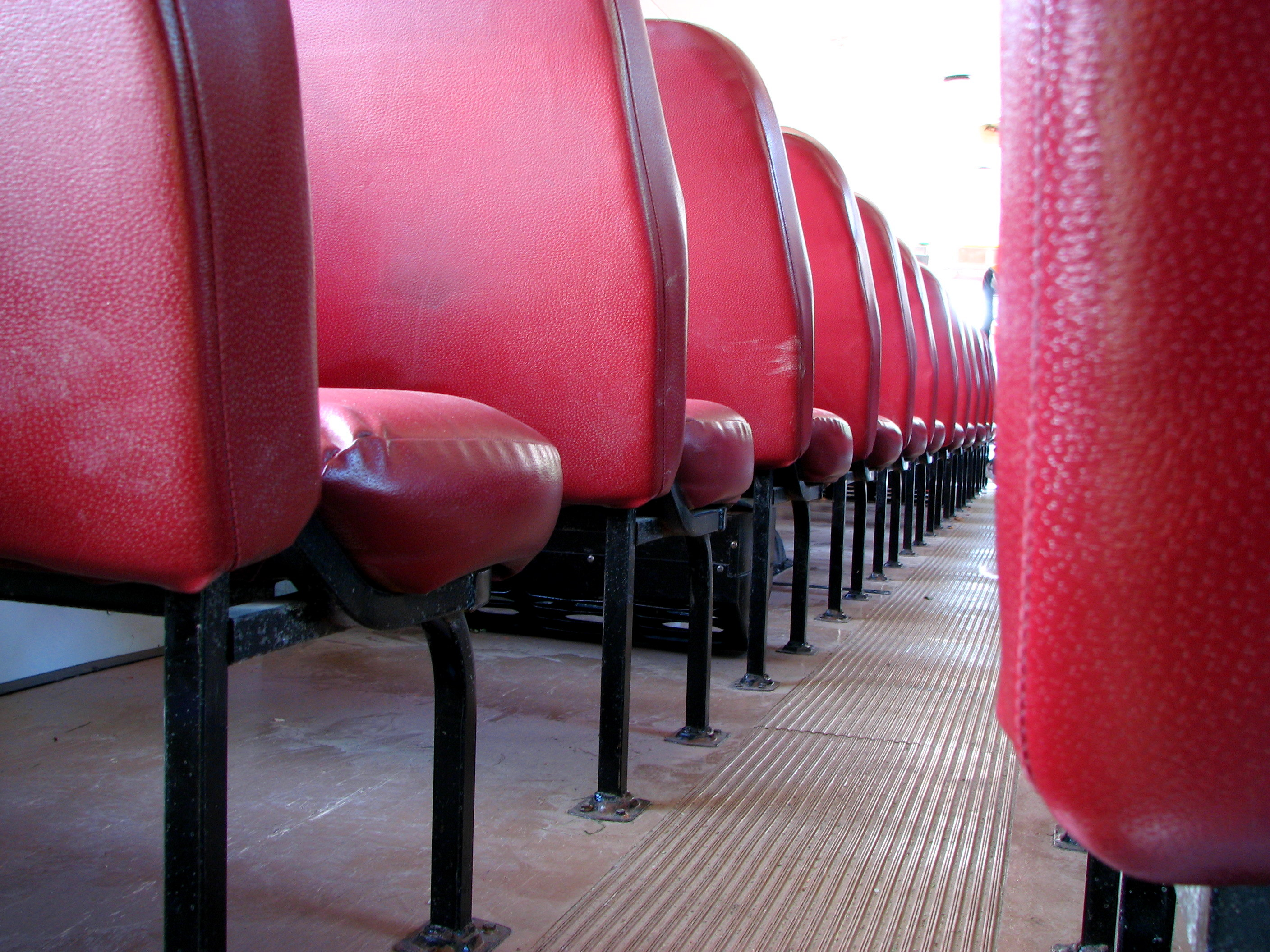 School bus seats, photographed from behind